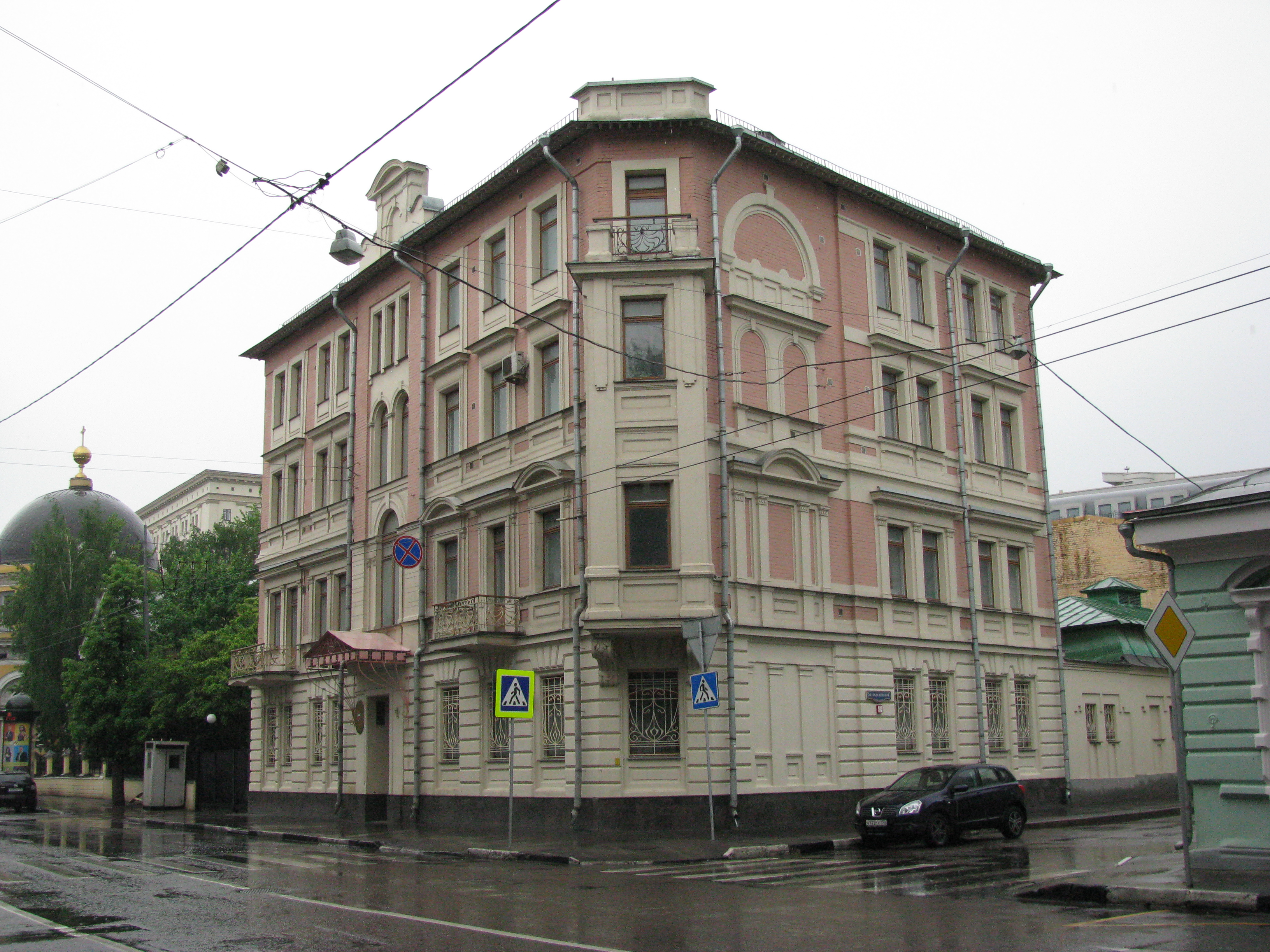 Embassy of Bahrain in Moscow (Bolshaya Ordynka Street, 18/1)